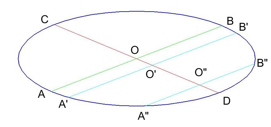 Conjugate diameters